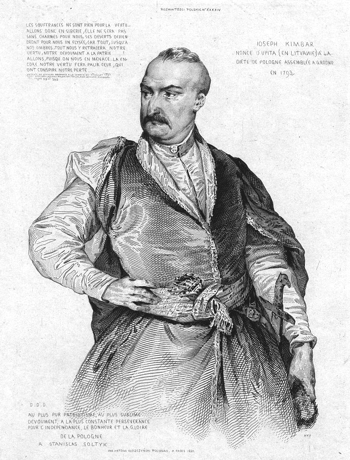 Józef Kimbar